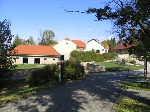 Porva, Hungary